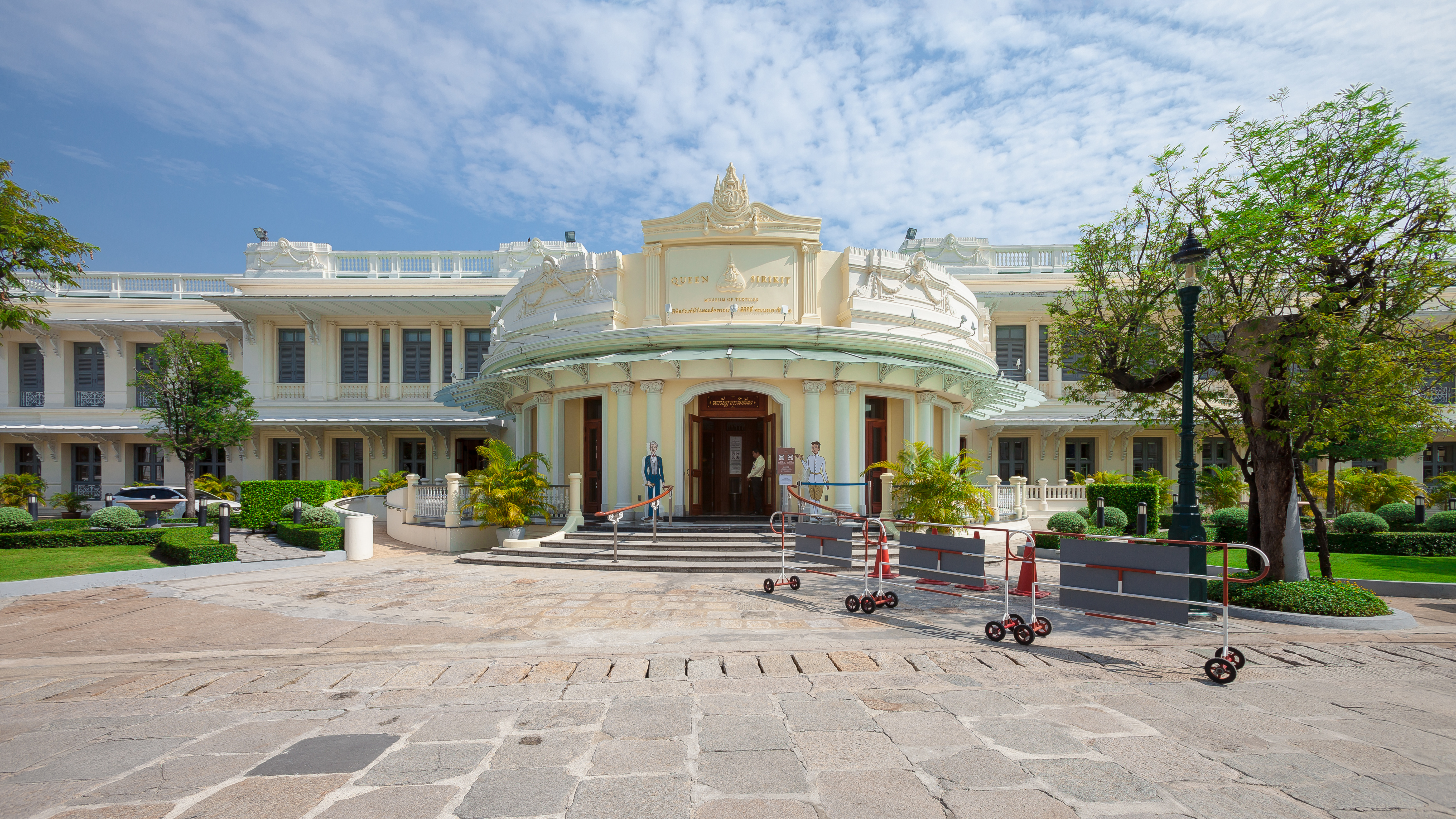 Queen Sirikit Museum of Textiles in Grand Palace, Bangkok, Thailand.